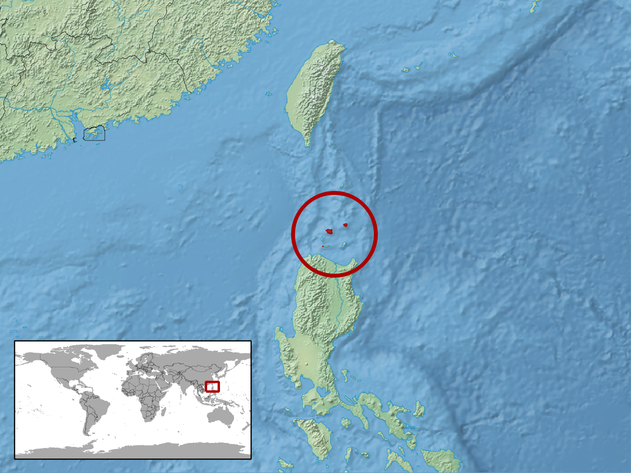 geographic distribution of Luperosaurus macgregori (Native: Philippines)